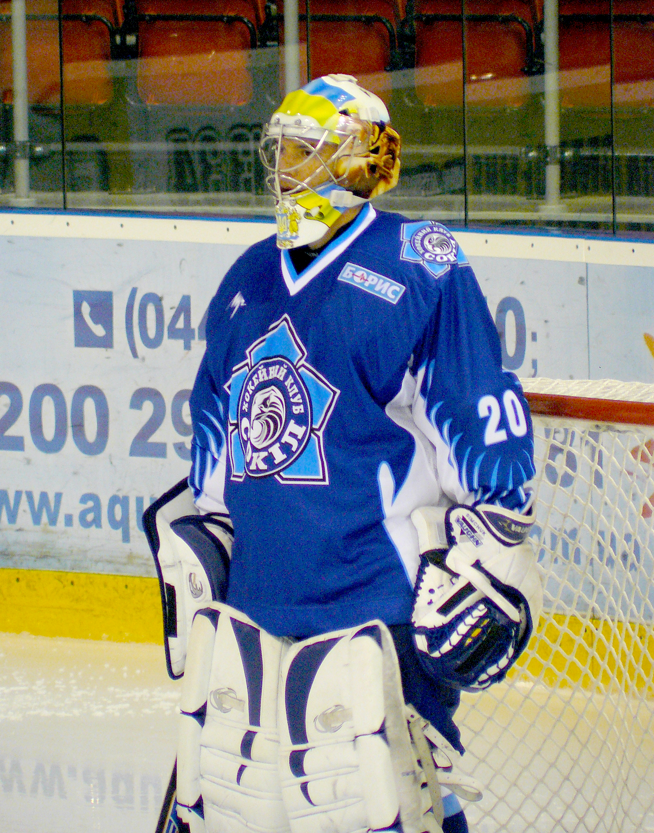 Goalie Kostiantyn Simchuk #20 of the Sokil Kyiv during the Belarus Extraliga game against the Yunost Minsk on September 15, 2010 at the Terminal Arena in Brovary, Ukraine. Yunost Minsk won the game 2:1.